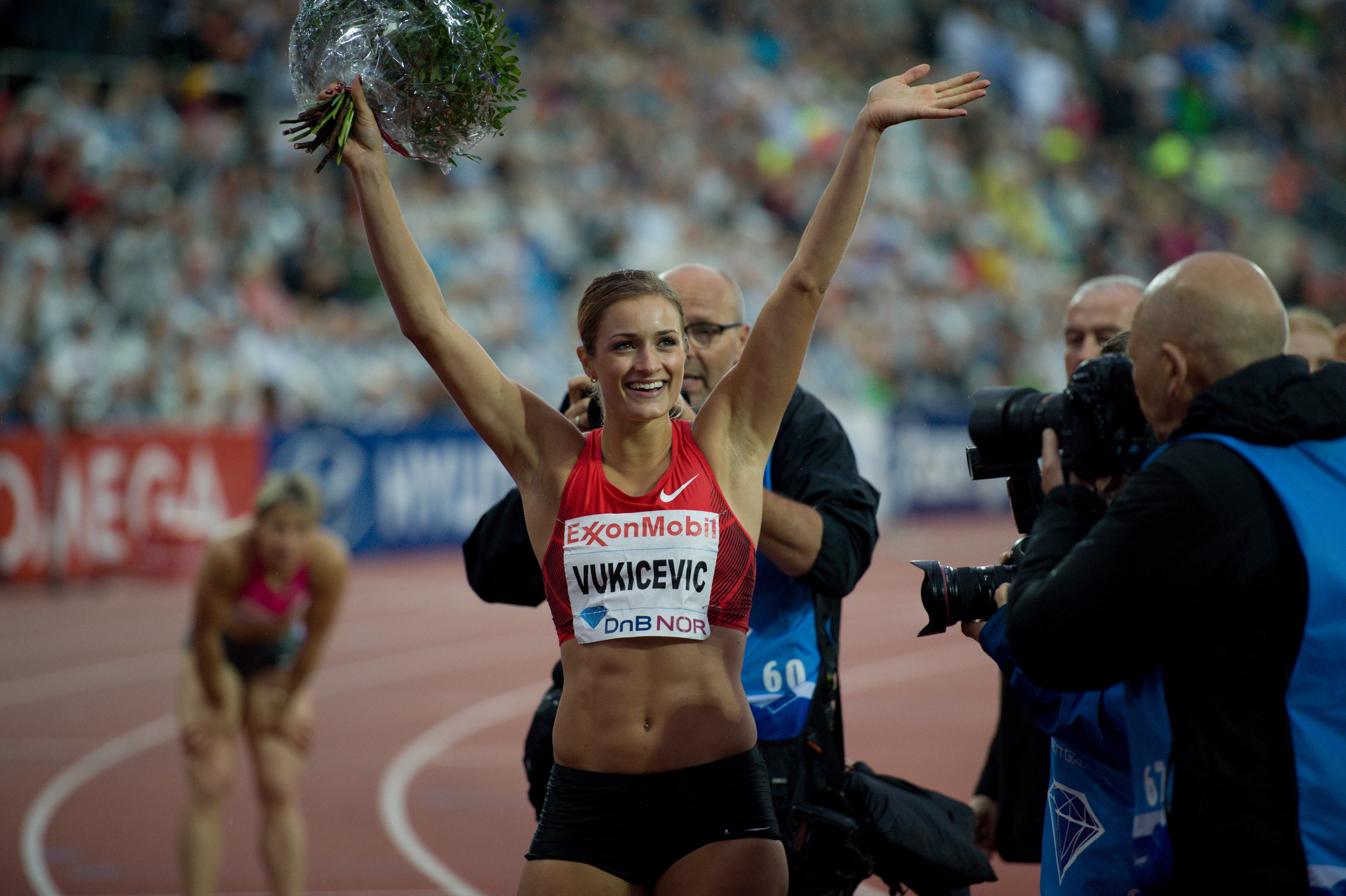 Christina Vukicevic after she won the 100 m hurdles in Diamond Leagues, Bislet Games June 9th 2011.